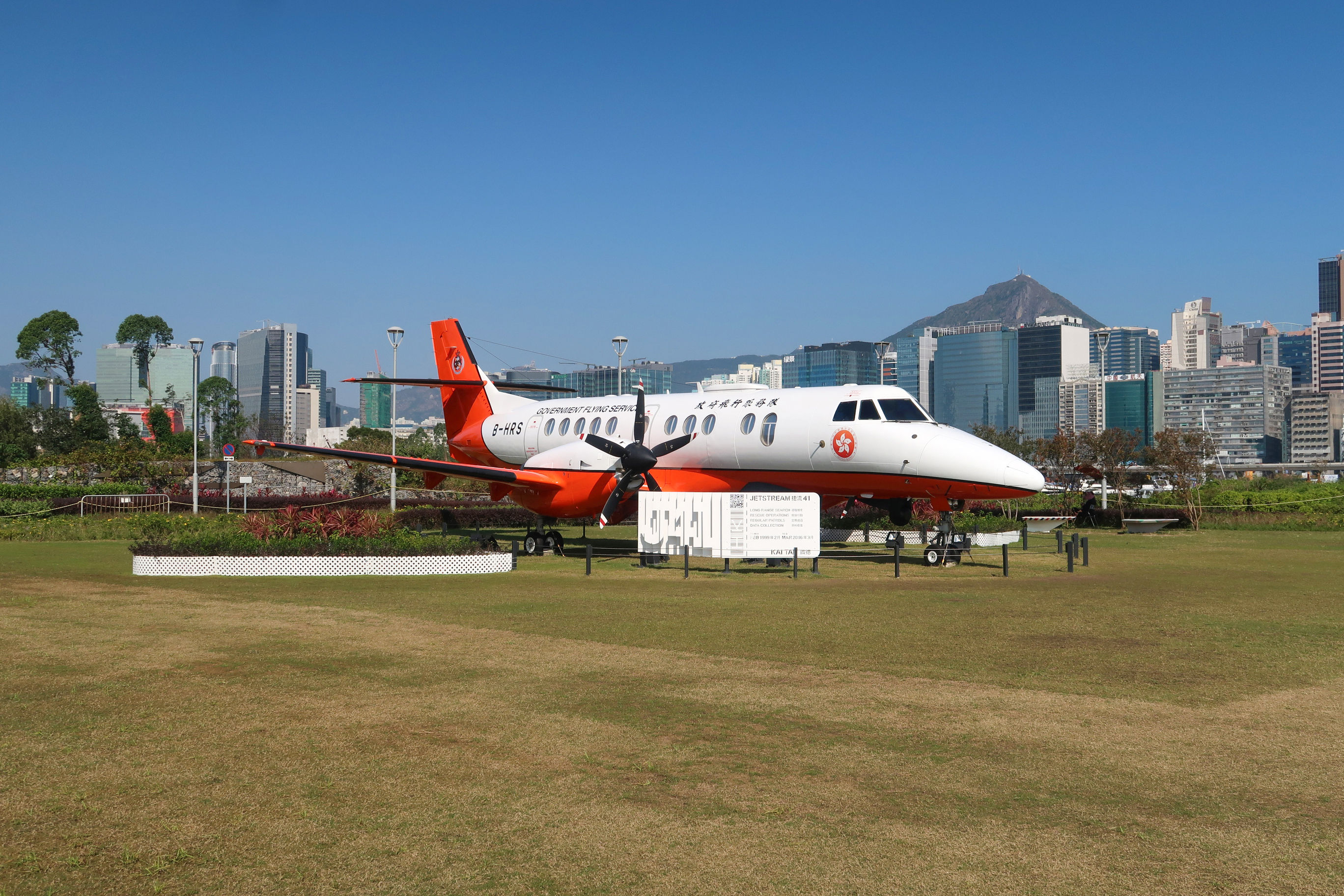 Kai Tak Runway Park Jetstream 41 fixed-wing aircraft